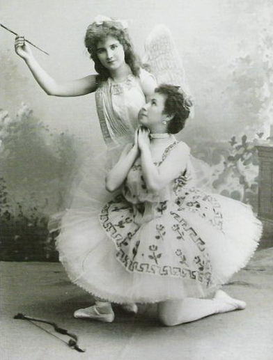 Photograph of the ballerinas Mathilde Kschessinskaya as Flora (right) and Vera Trefilova as Cupid (left) costumed for the original production of the choreographer Marius Petipa & the composer Riccardo Drigo's 1894 ballet "Le Réveil de Flore".